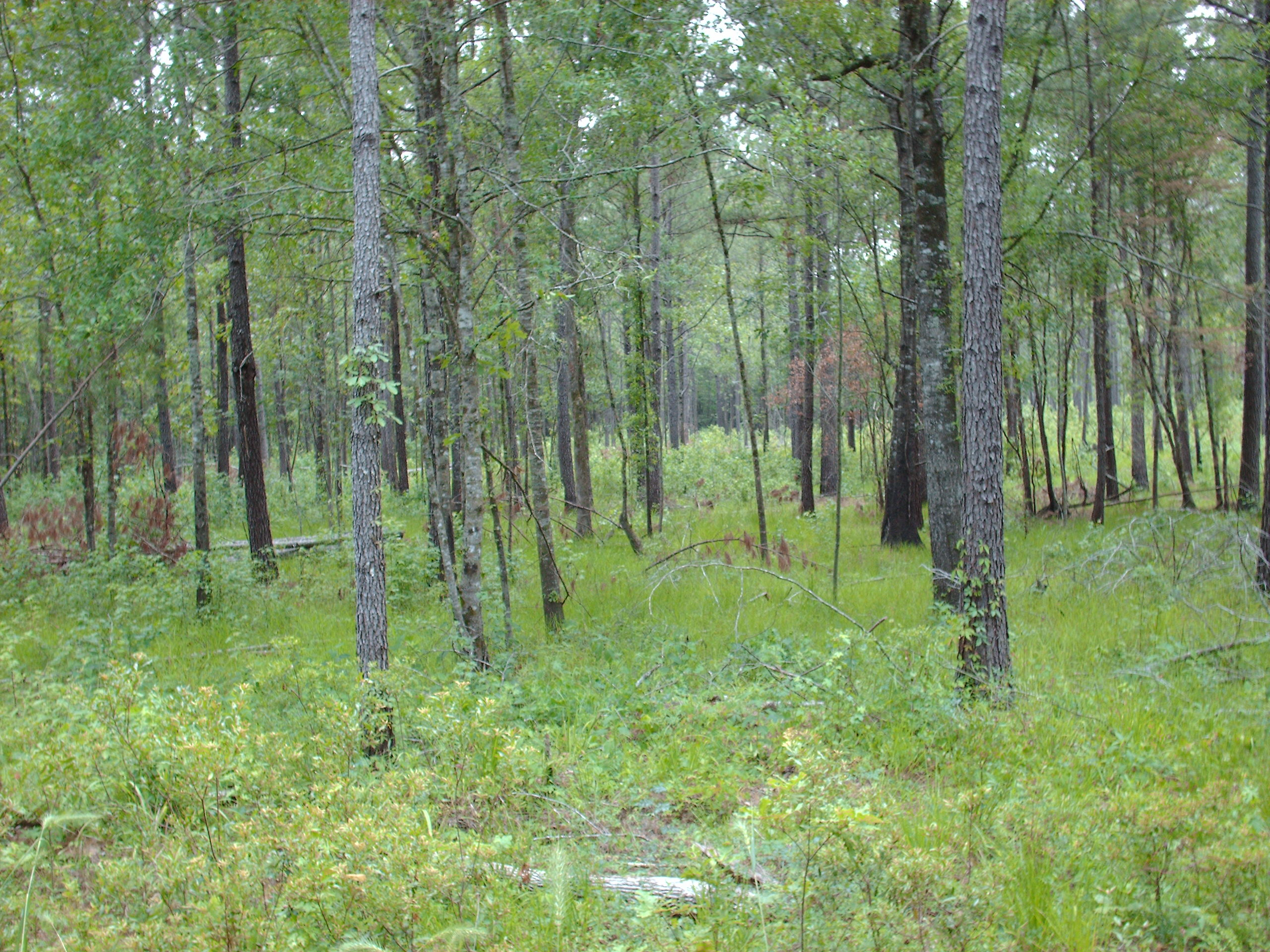 Francis Marion National Forest, South Carolina. Picture in the forest taken by me.